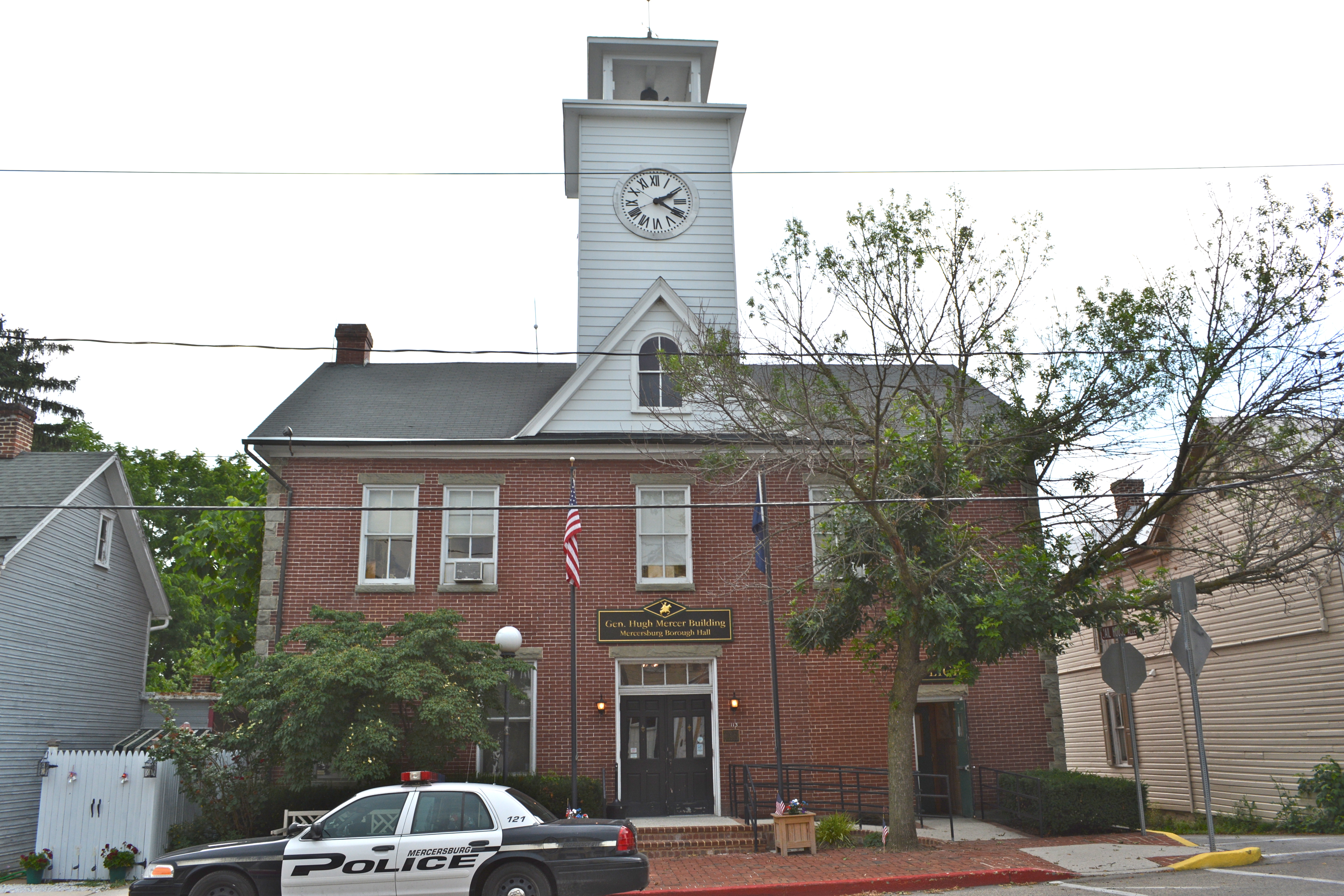 Building in Mercersburg Historic District. HD listed on the NRHP on December 13, 1978, with a boundary increase May 17, 1989. (#78002403). The district includes Main and Seminary Streets in Mercersburg, Franklin county, Pennsylvania.